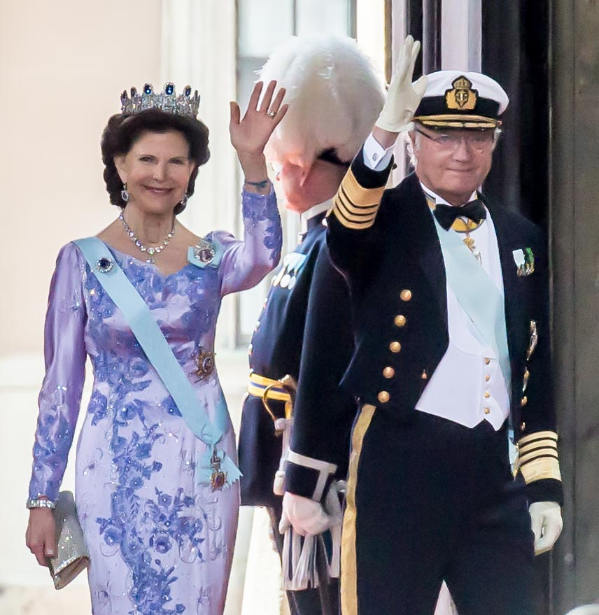 Queen Silvia and Carl XVI Gustaf of Sweden on their way into the castle church and the wedding ceremony of Prince Carl Philip and Sofia Hellqvist June 13, 2015.